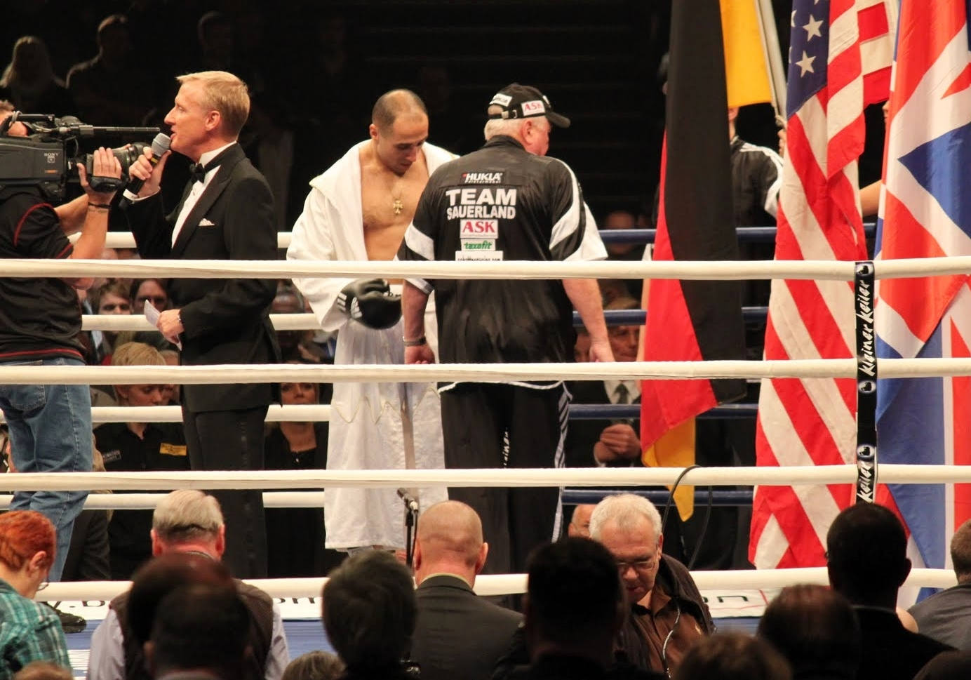 Left to right: Jimmy Lennon, Jr., Arthur Abraham and Ulli Wegner at Hartwall Arena in Helsinki, Finland on November 27, 2010.